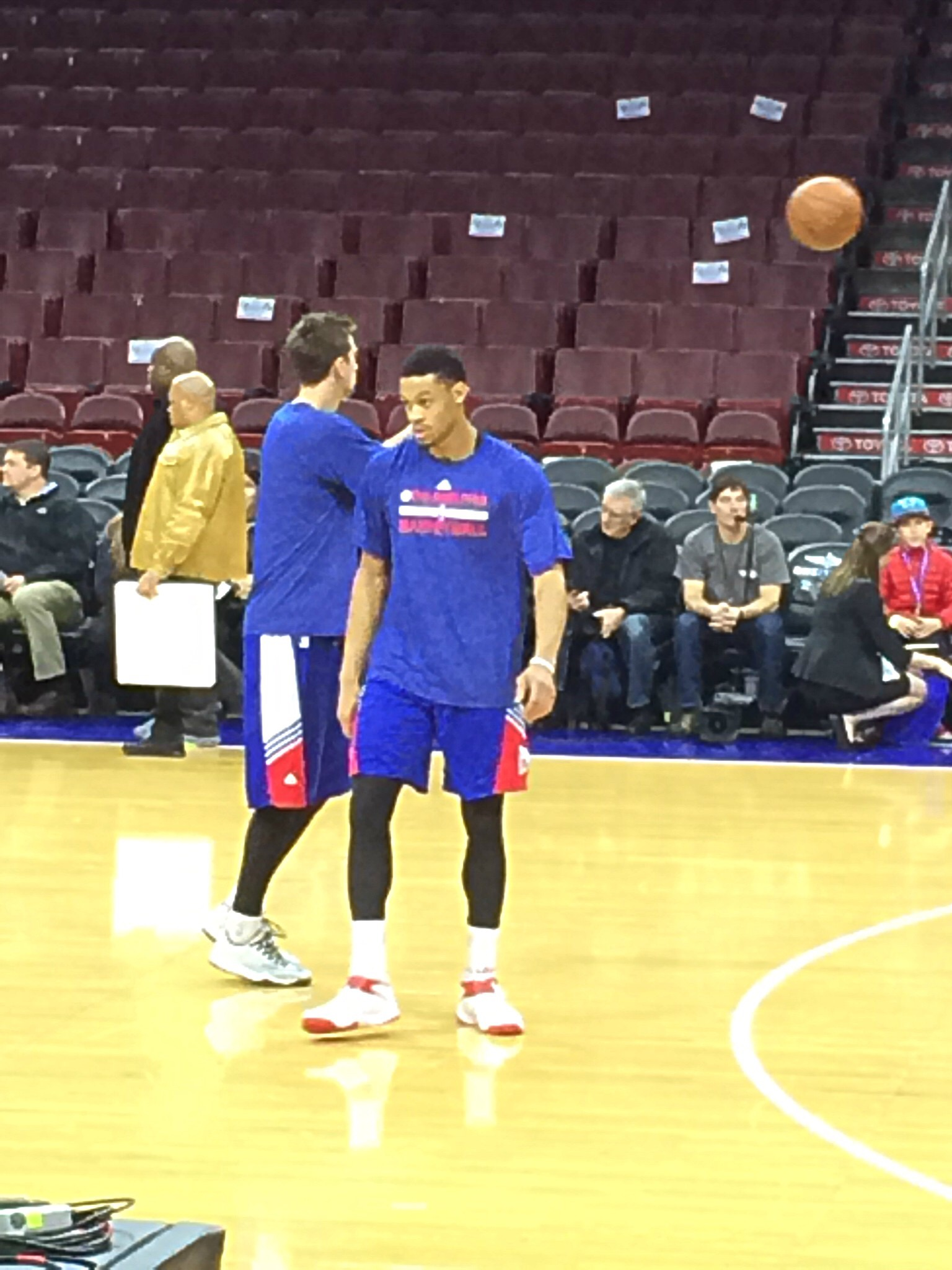 KJ McDaniels on the floor